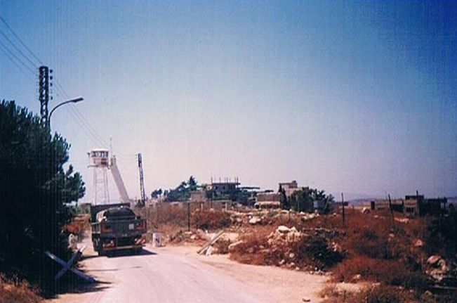 שיירת אספקה של צה"ל ליד הכפר טייבה ברצועת הביטחון בלבנון 1993